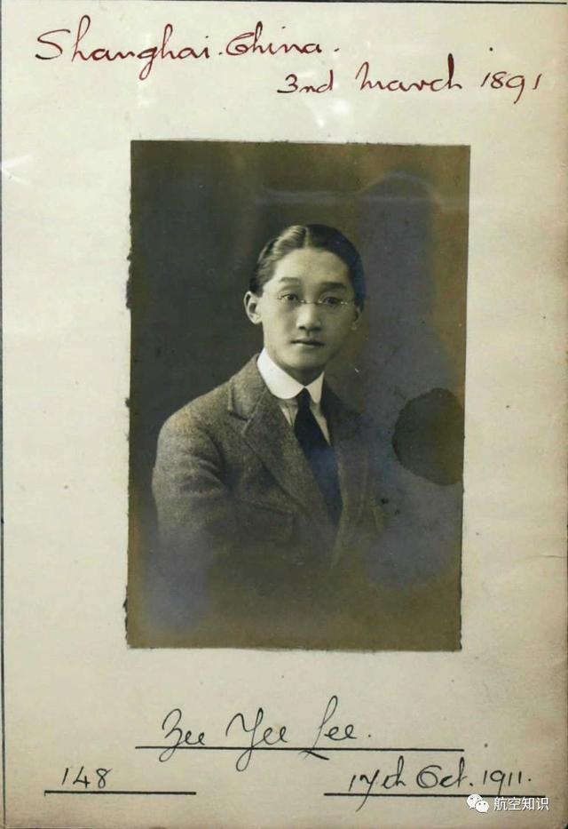 Chinese aviation pioneer Zee Yee Lee (Li Ruyan) in 1911, at the time he was issued his Royal Aero Club certificate (No. 148)